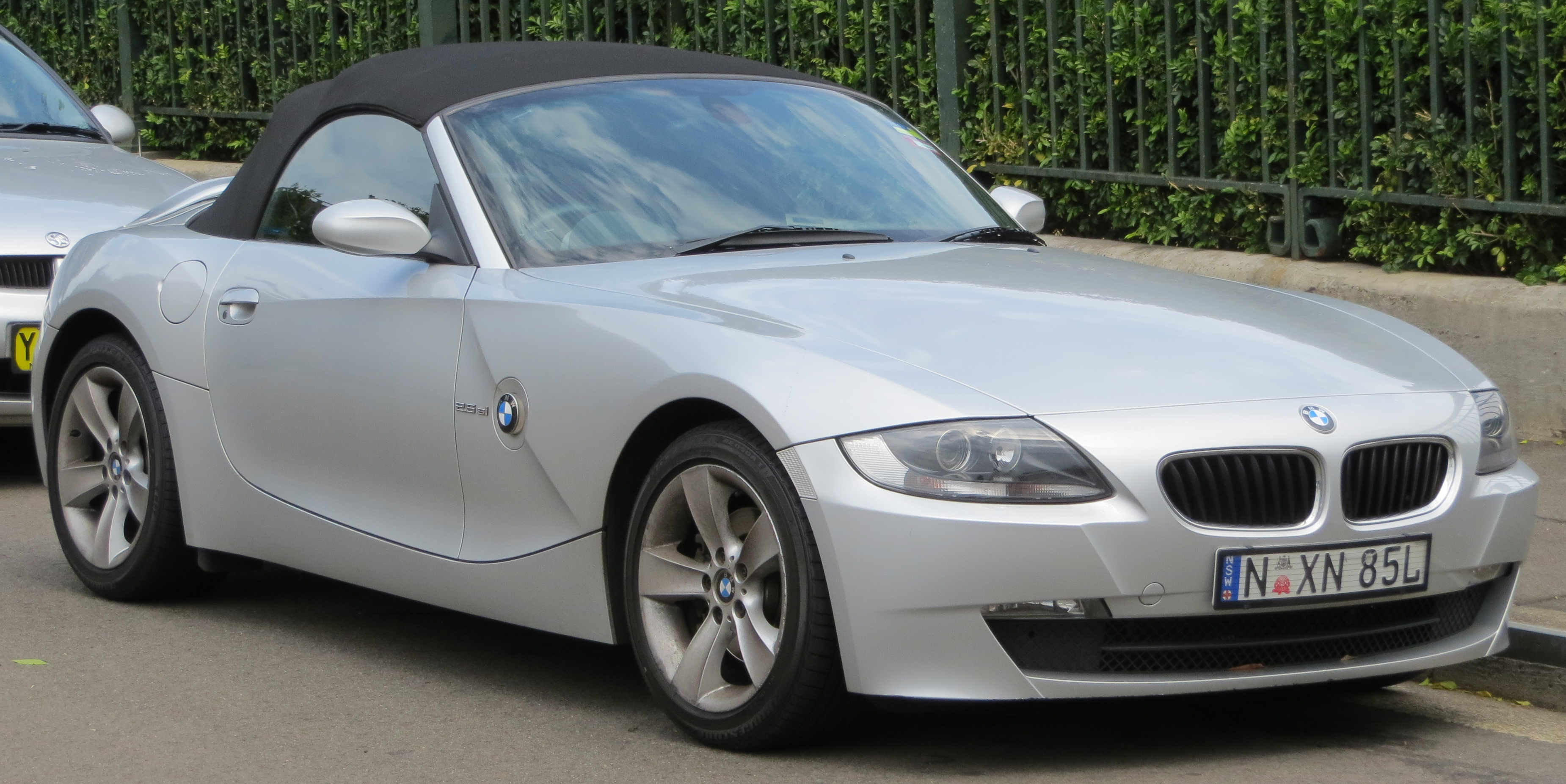 2006 BMW Z4 (E85) 2.5si convertible. Photographed in Millers Point, New South Wales, Australia.